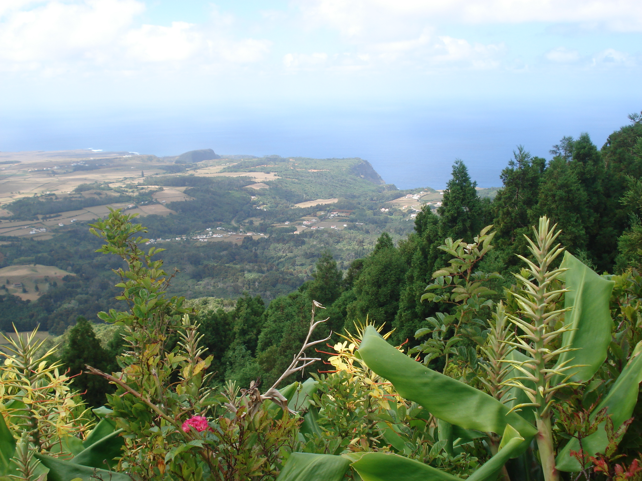 Civil parish of São Pedro, along the coast of Santa Maria Island, Azores.